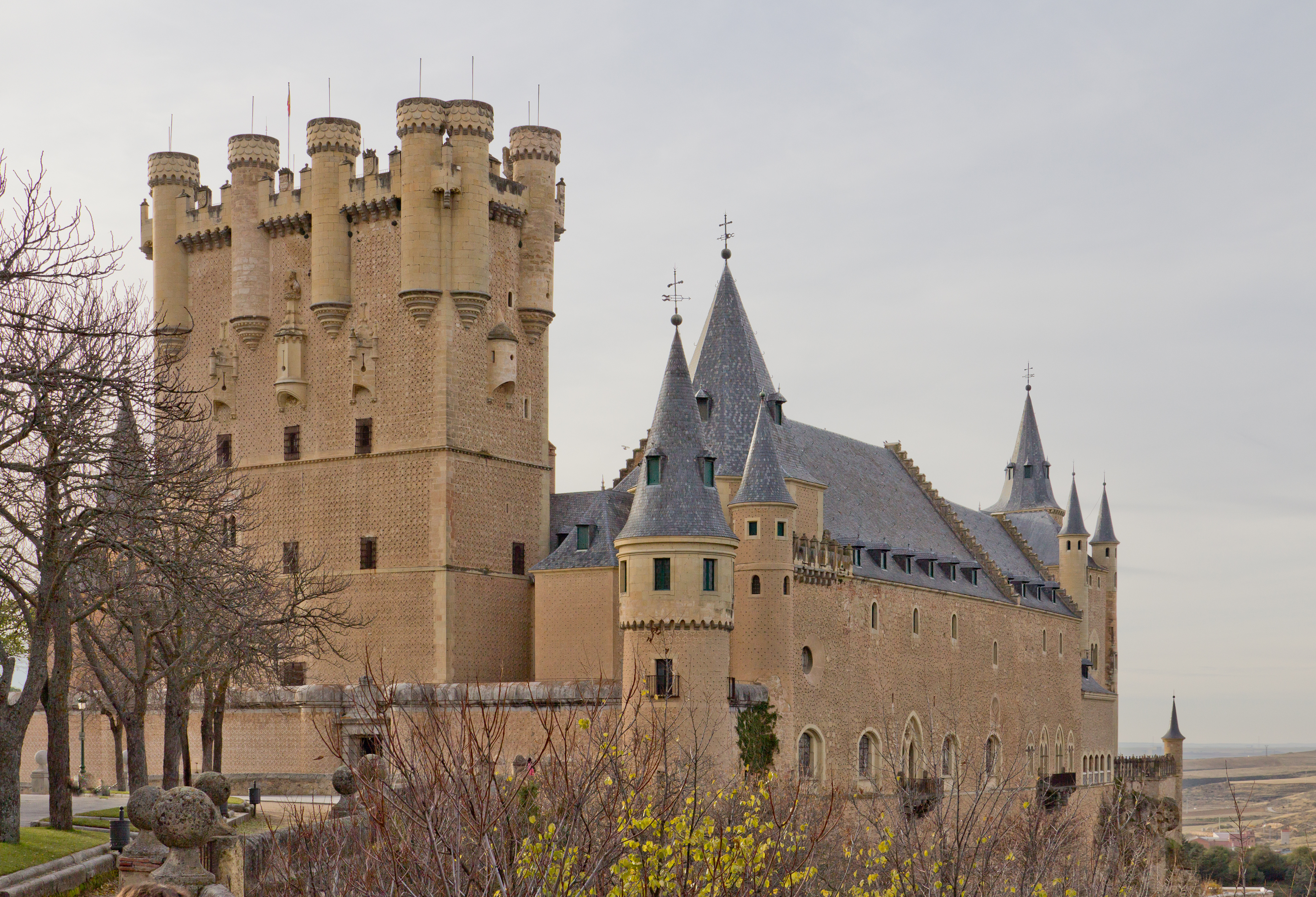 Alcázar of Segovia, Spain.